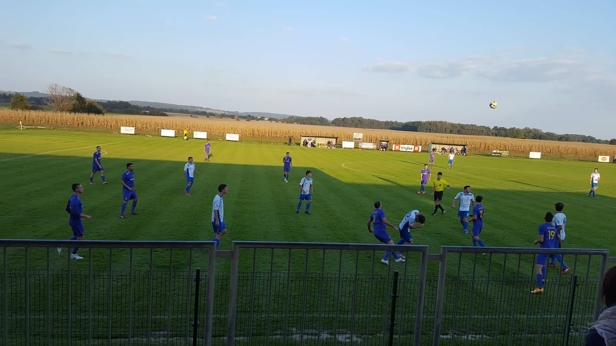 This image represents a moment during the match in the 2017-18 Slovenian Third League (East) season, match: Čarda Martjanci - Radgona